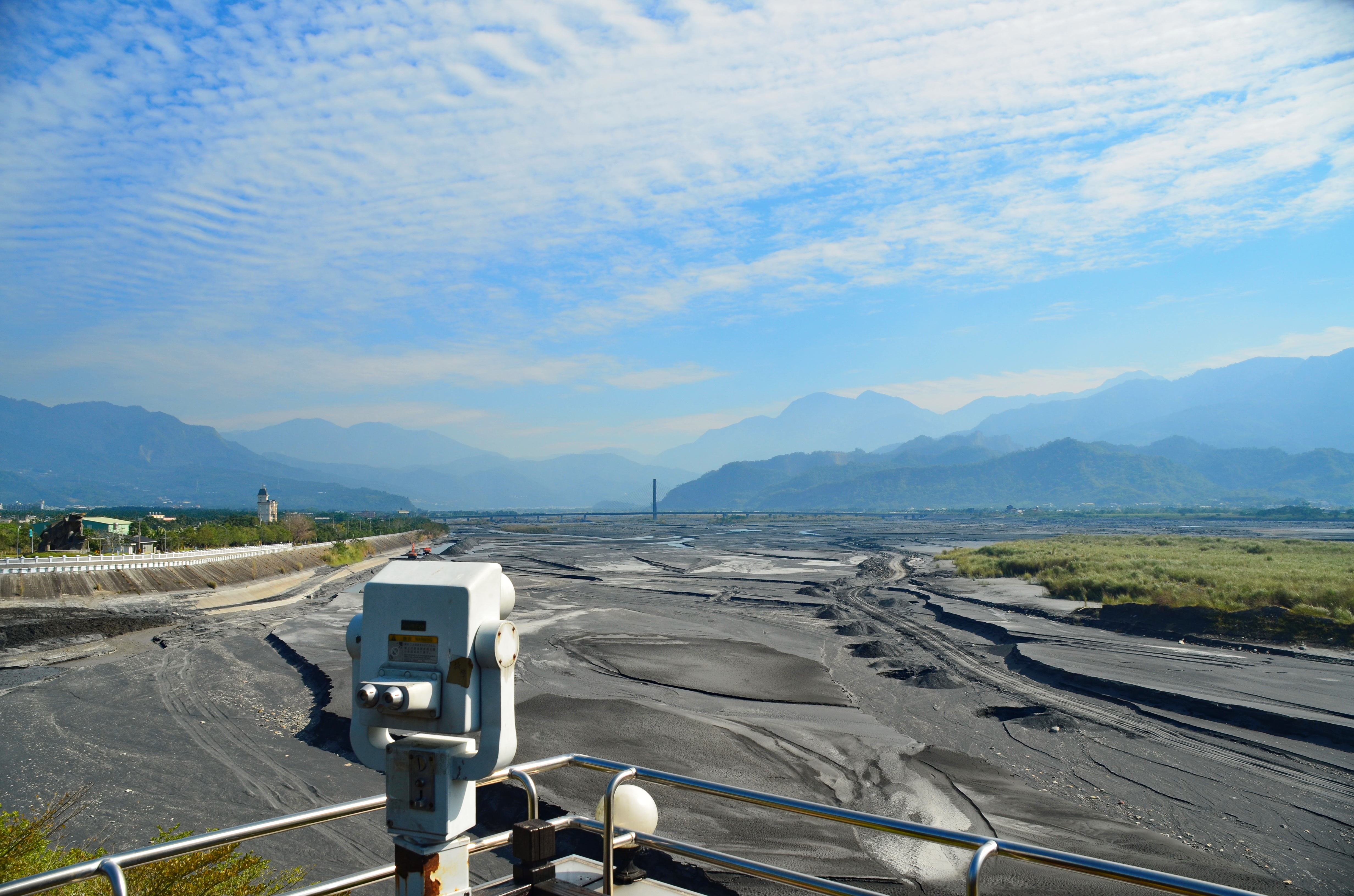 Looking toward Zhuoshui River from the overlook of Jiji Weir in Jiji Township, Nantou County, Taiwan. The Jilu Bridge can be seen in the distance in the centre of the picture.